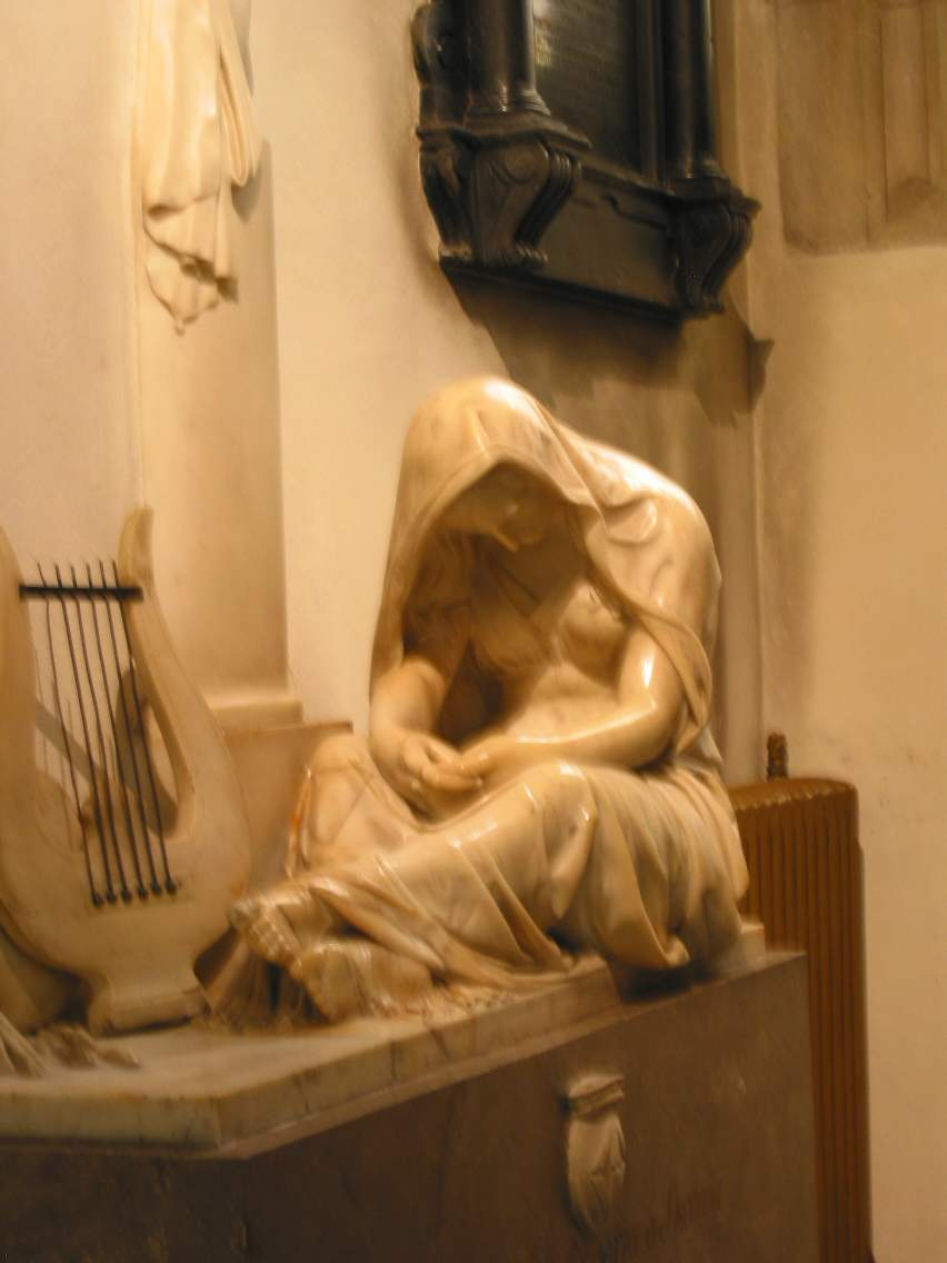 monument dedicated to Michał Bogoria Skotnicki (Wawel Cathedral, Krakow); Bertel Thorvaldsen is not a sculptor, but Stefano Ricci